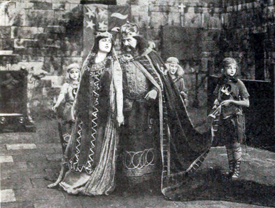 Illustration of a review in The Moving Picture World